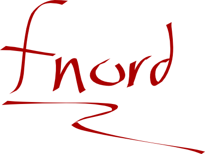 fnord